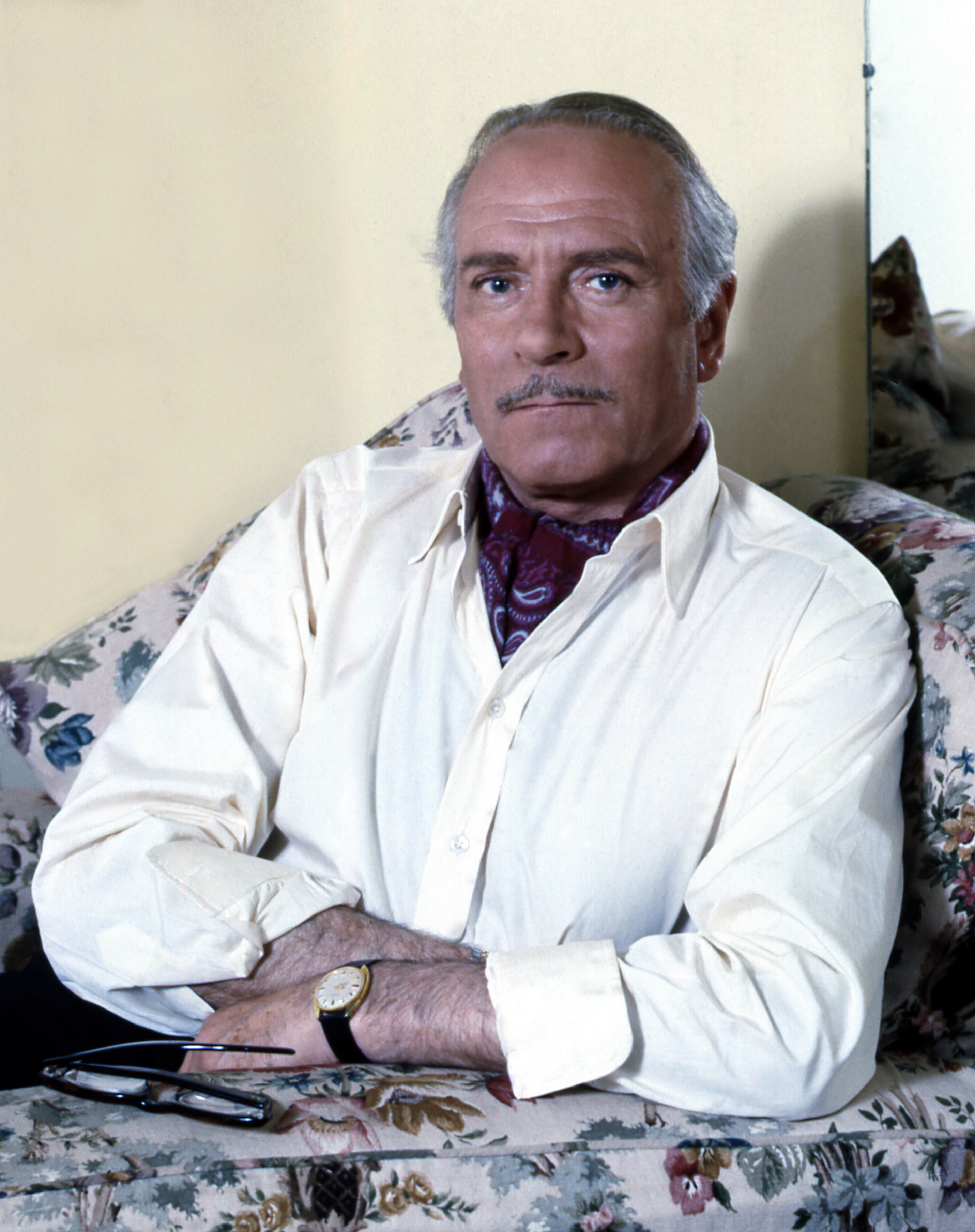 Lord Laurence Olivier taken in his dressing room on the set of Sleuth